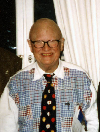 Swedish entertainer Povel Ramel at Akademiska Föreningen (the Academic Society) in Lund.